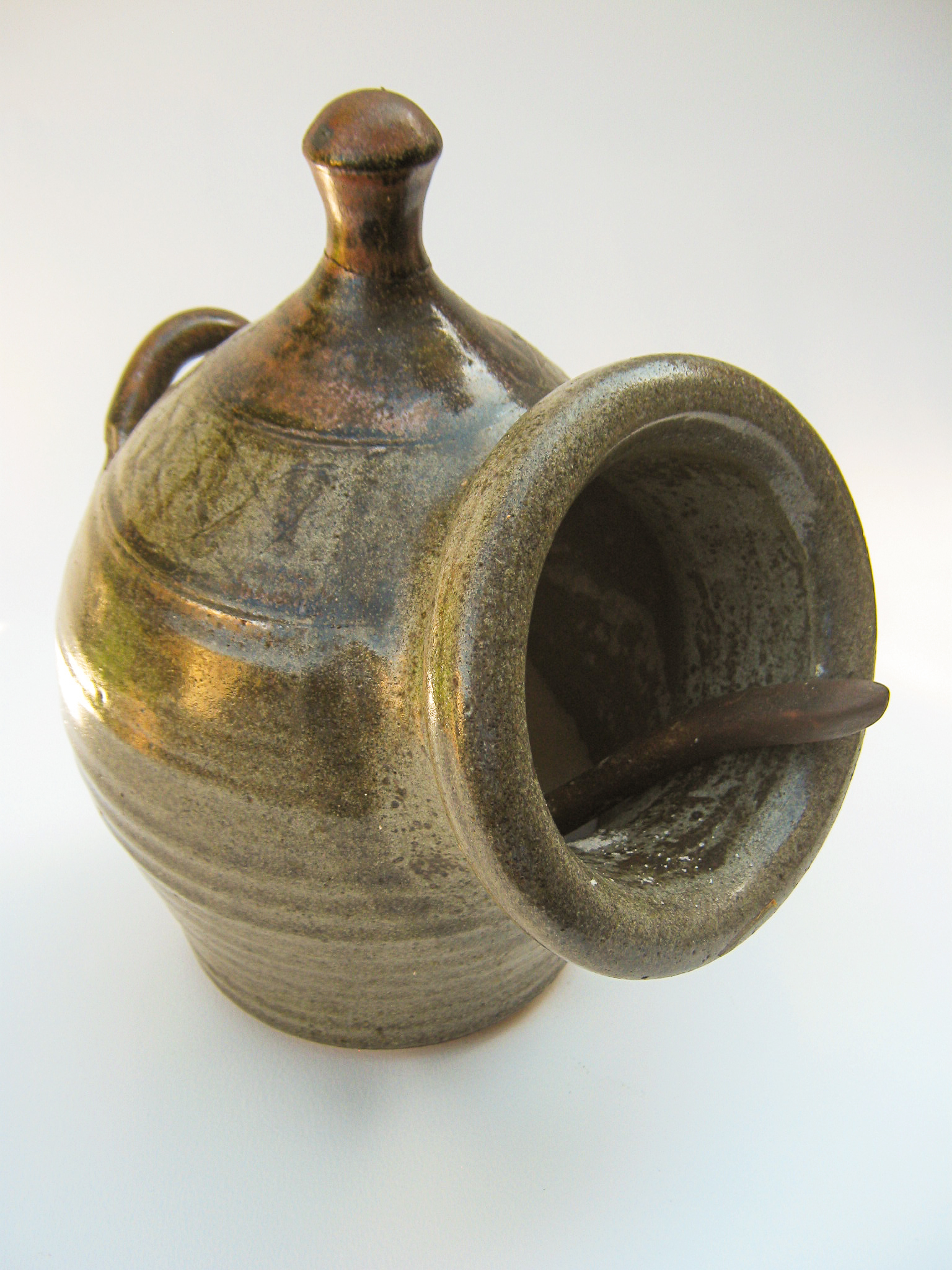 Salt pig by Ian Sprague 1960s; photographed in a private collection at Elwood Victoria